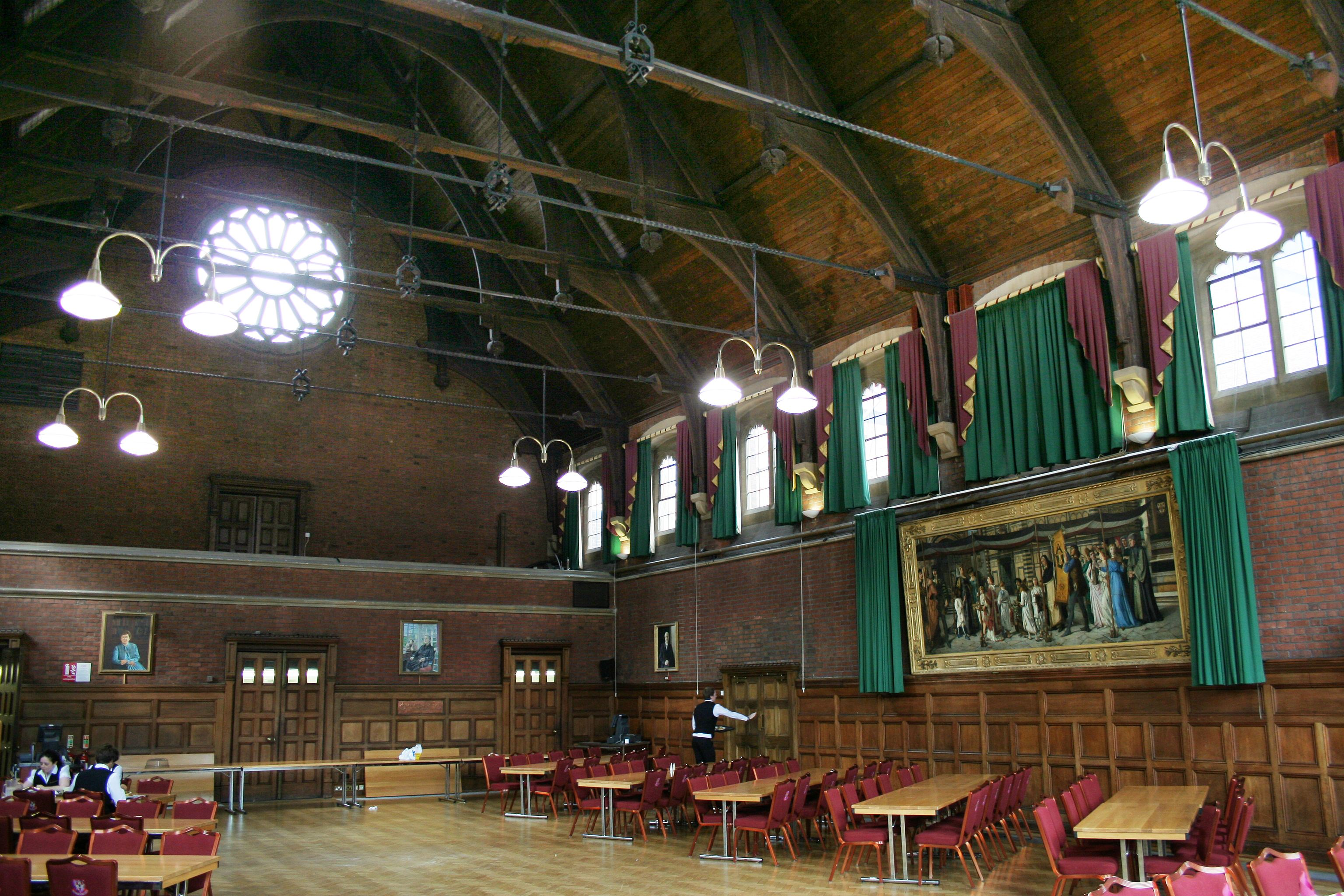 High-dynamic-range photograph of Cambridge University's Homerton College dining hall.